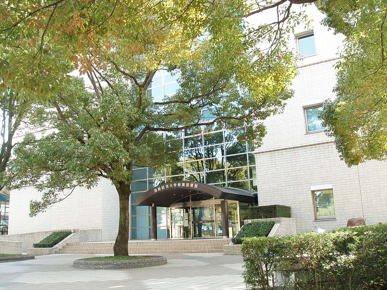 The Library of Takasaki City University of Economics. Located in Takasaki, Gunma, Japan.